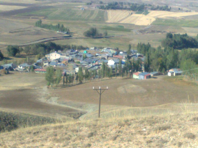 Ağustos 2010